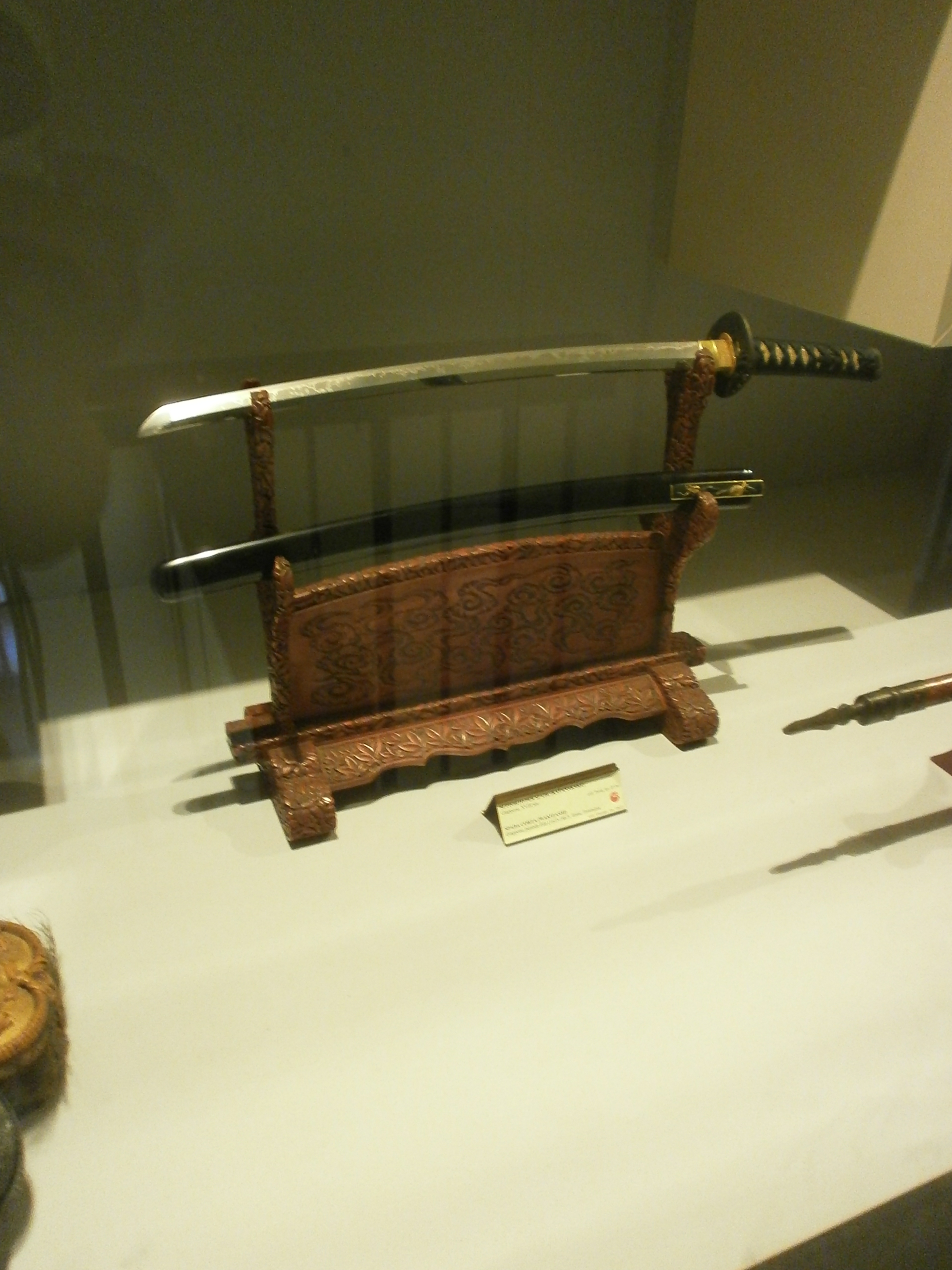 sforza castle museum - milan - collezioni extraeuropee - spada corta giapponese, periodo edo